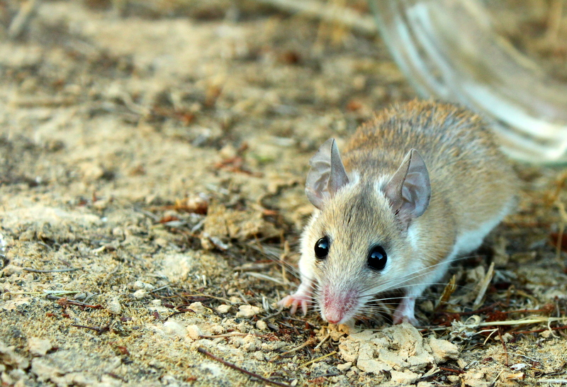 Acomys cahirinus at Ein Gedi